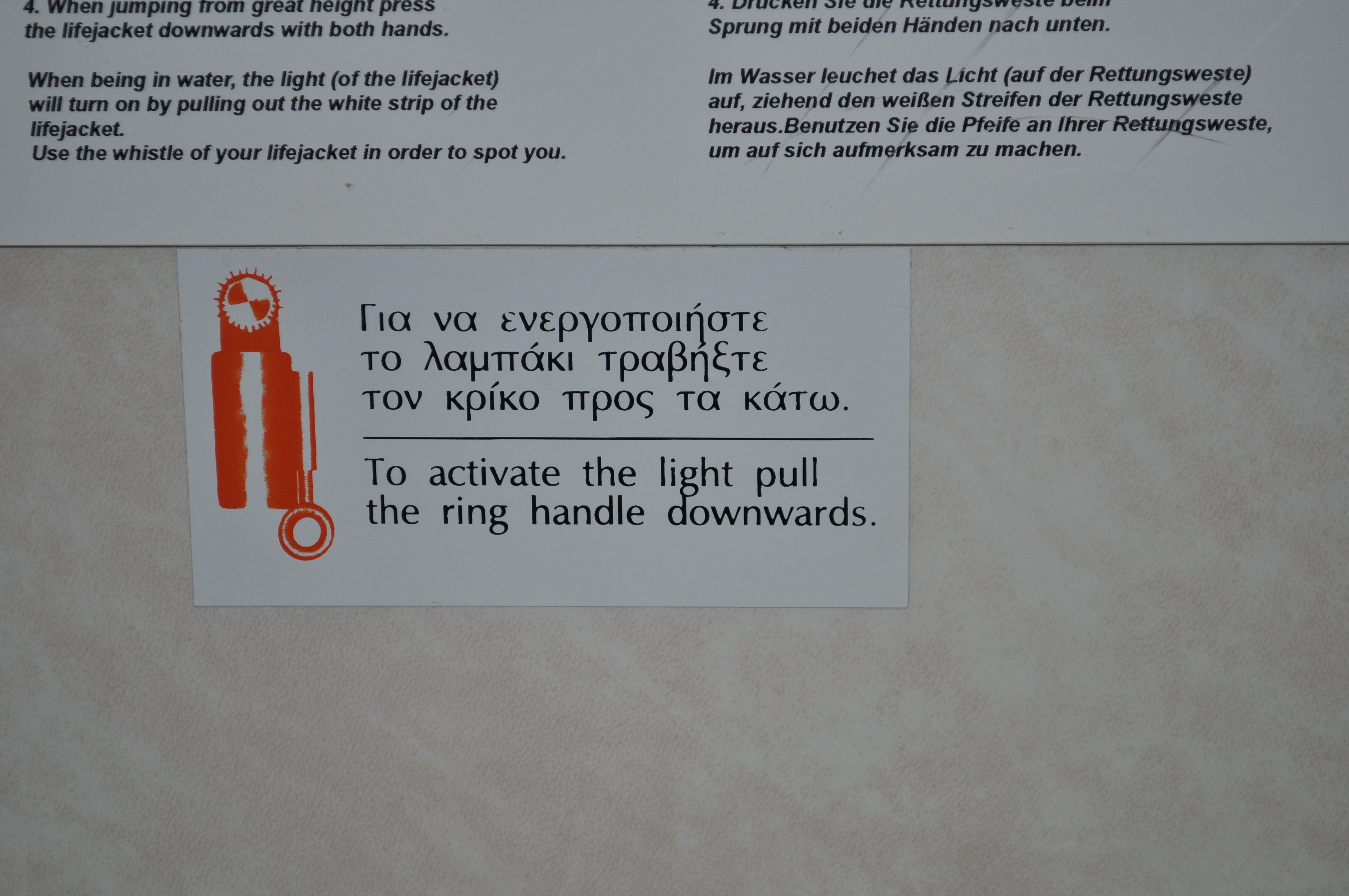 Spirit of Tasmania 1 signage is firstly in greek, which is surprising for a ship that operates in Australian waters.